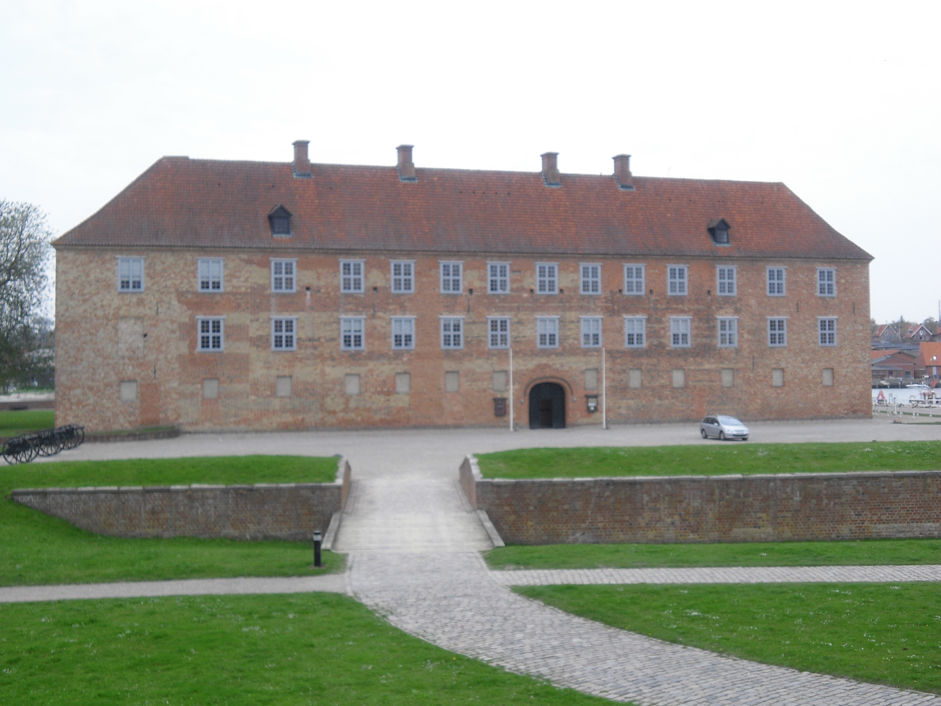 The Caste in Sönderborg, Denmark